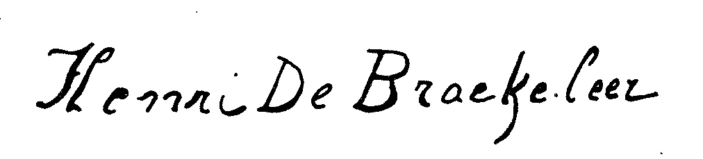 Scan aus Classified Signaturs of Artists